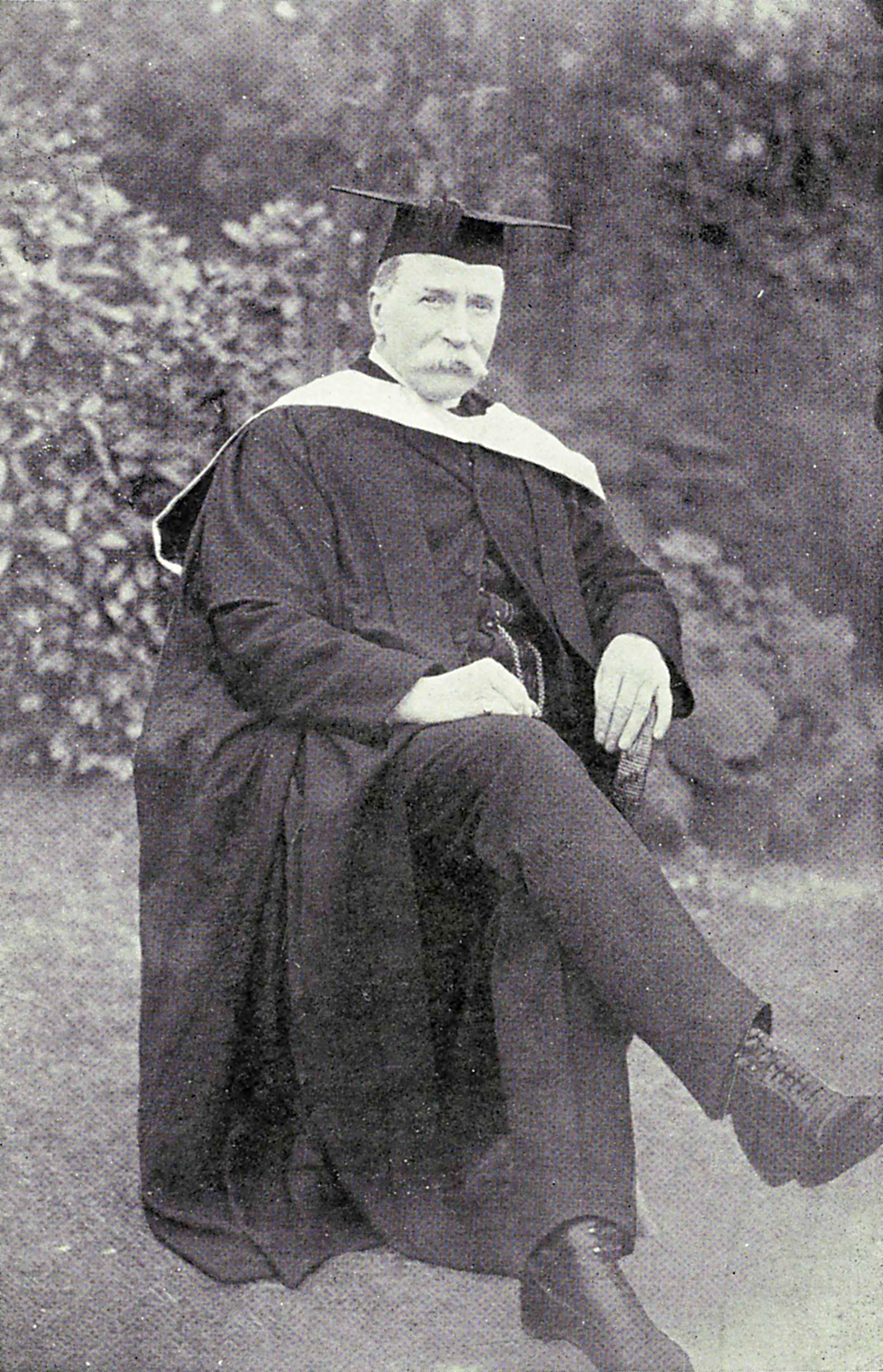 Portrait of Douglas Horsfall taken in 1911 for The Stag, the college magazine of St Chad's Hall, Durham University and St Chad's Hostel, Hooton Pagnell. Original caption: Ds. H. Douglas HOrsfall, M.A., Fundator Noster. "Exegi monumentum aere perennius" - (Horace)